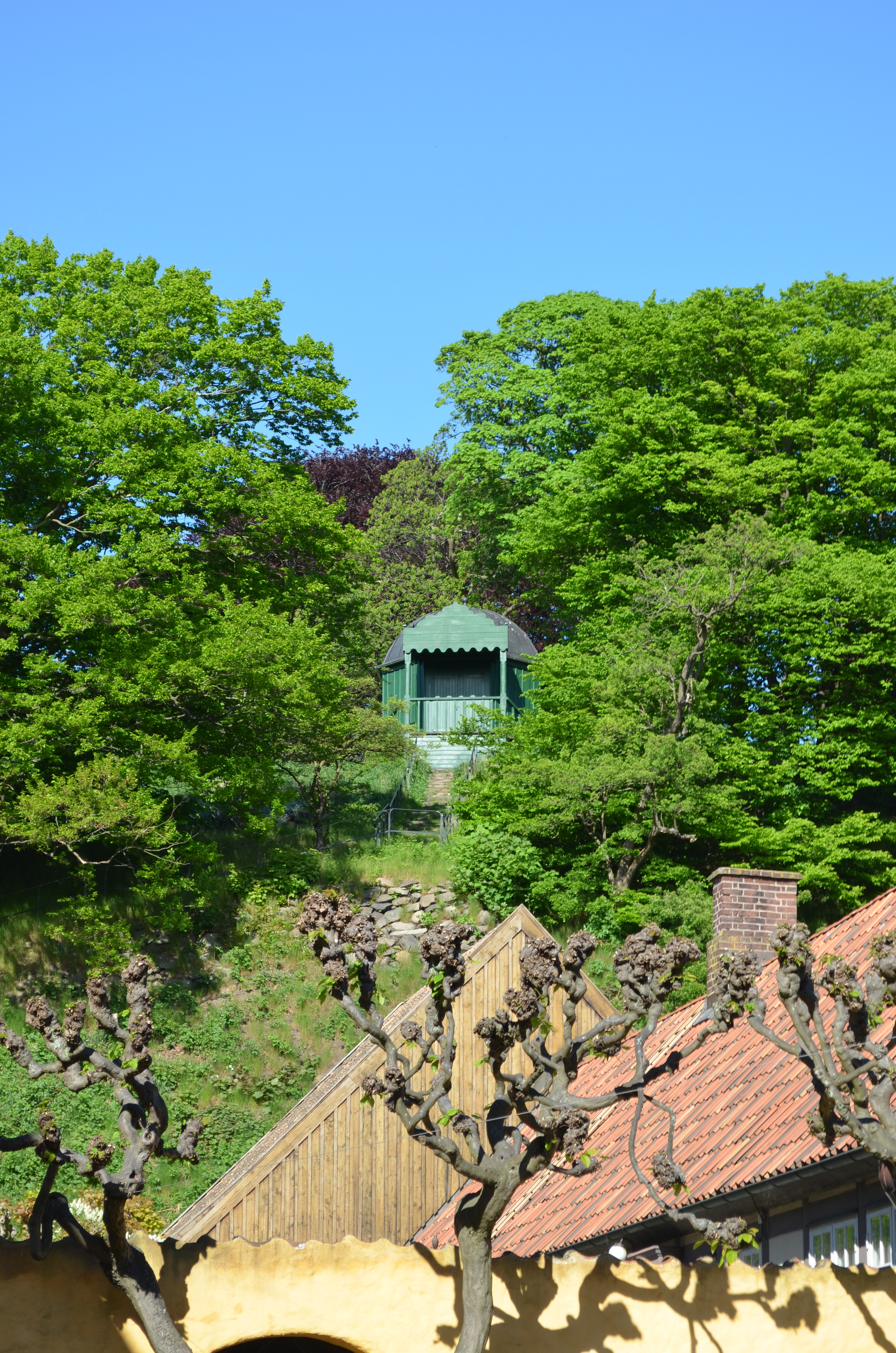 Eppingska lusthuset